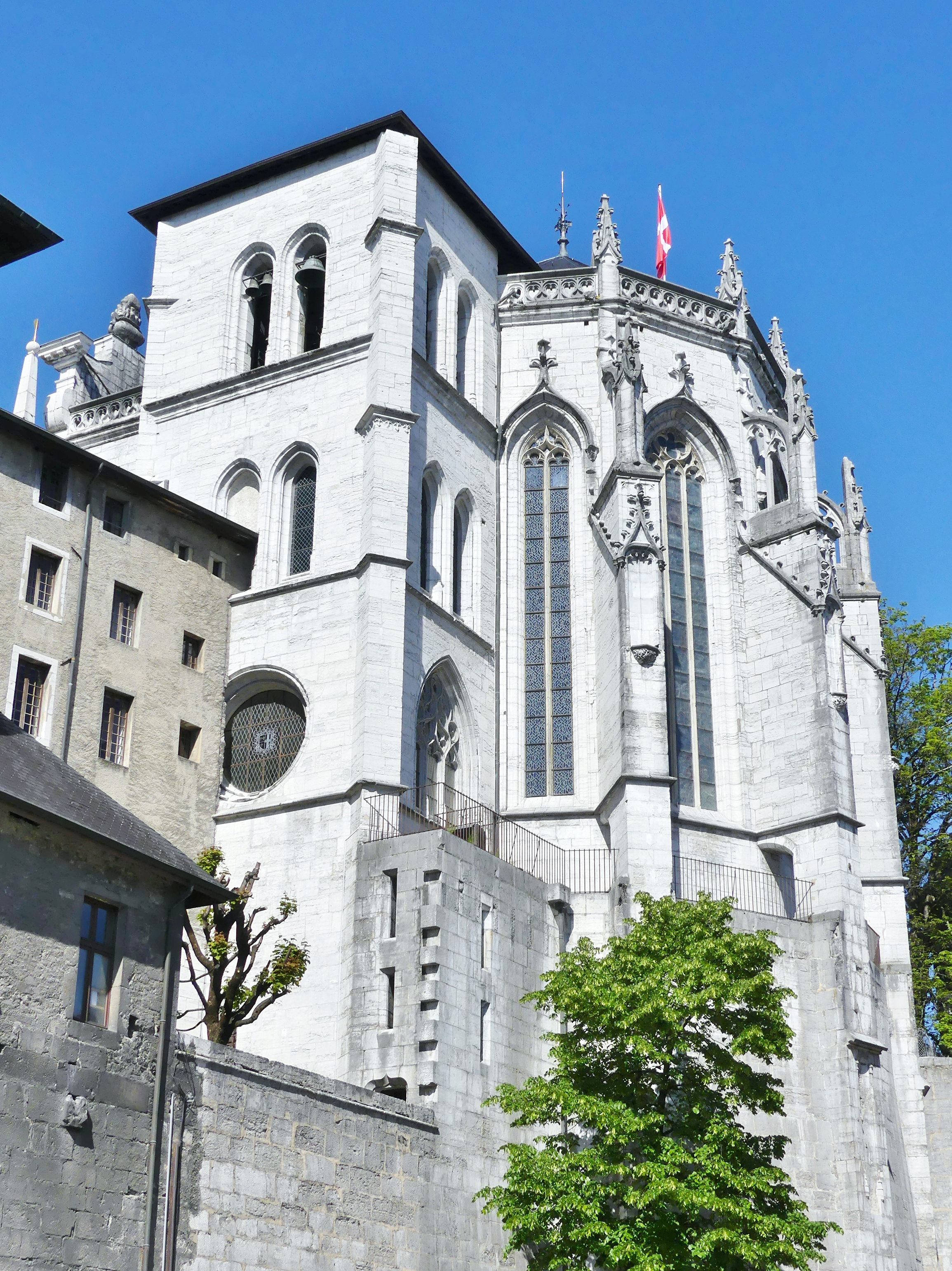 Sight of the Sainte-Chapelle, part of the city of Chambéry castle, in Savoie, France.